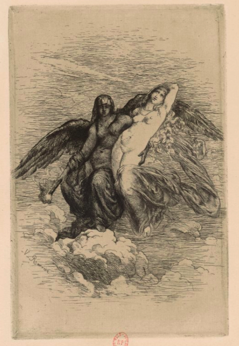 "Dernier mirage", illustration by Ranvier for Emile Deschamps, in Sonnets et eaux-fortes, Paris, 1869.